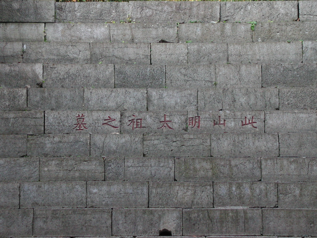 The inscription "This hill is the tomb of Ming Taizu" (i.e., the Hongwu Emperor of the Ming Dynasty).